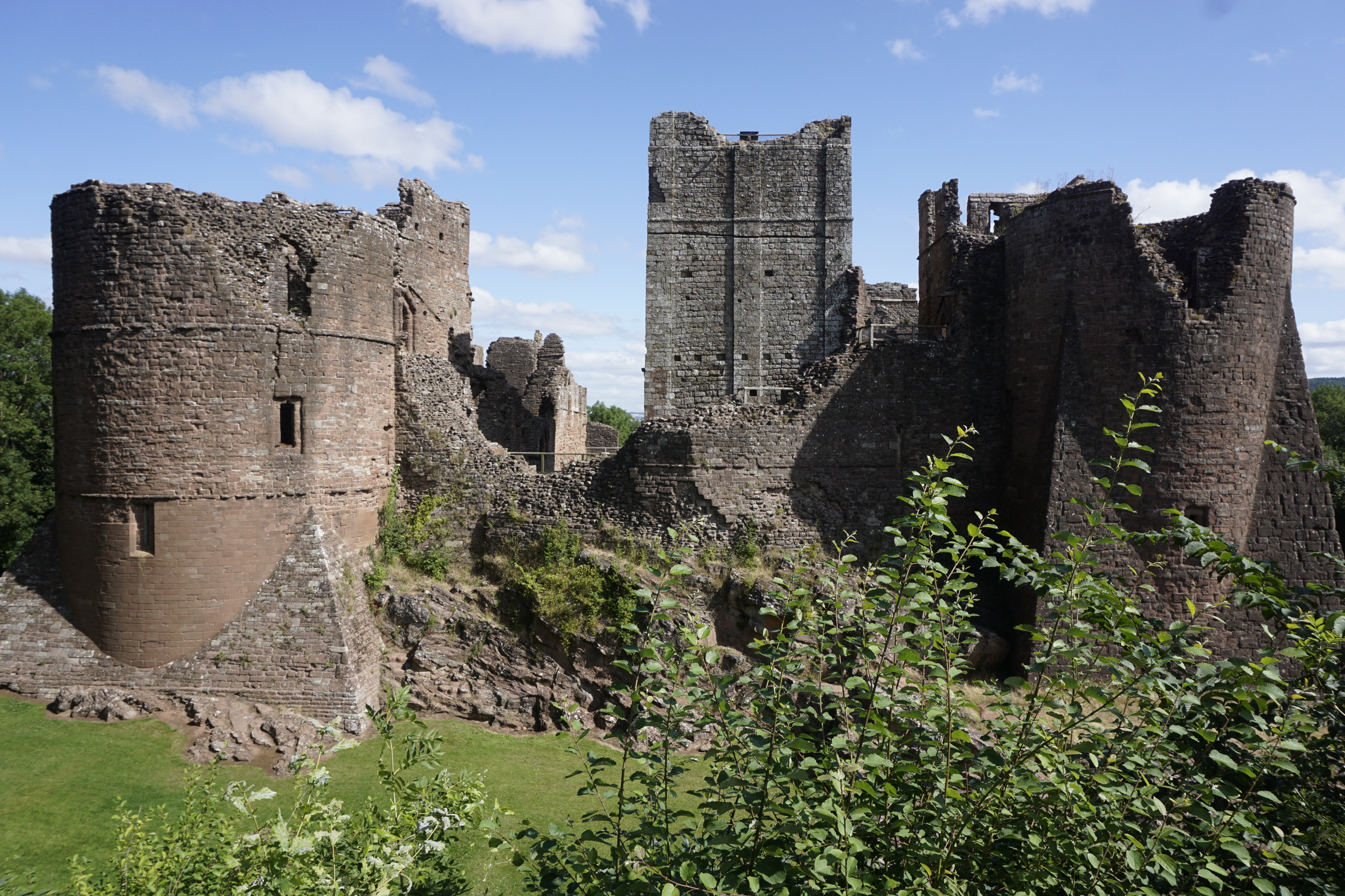 View over the moat to the keep and towers